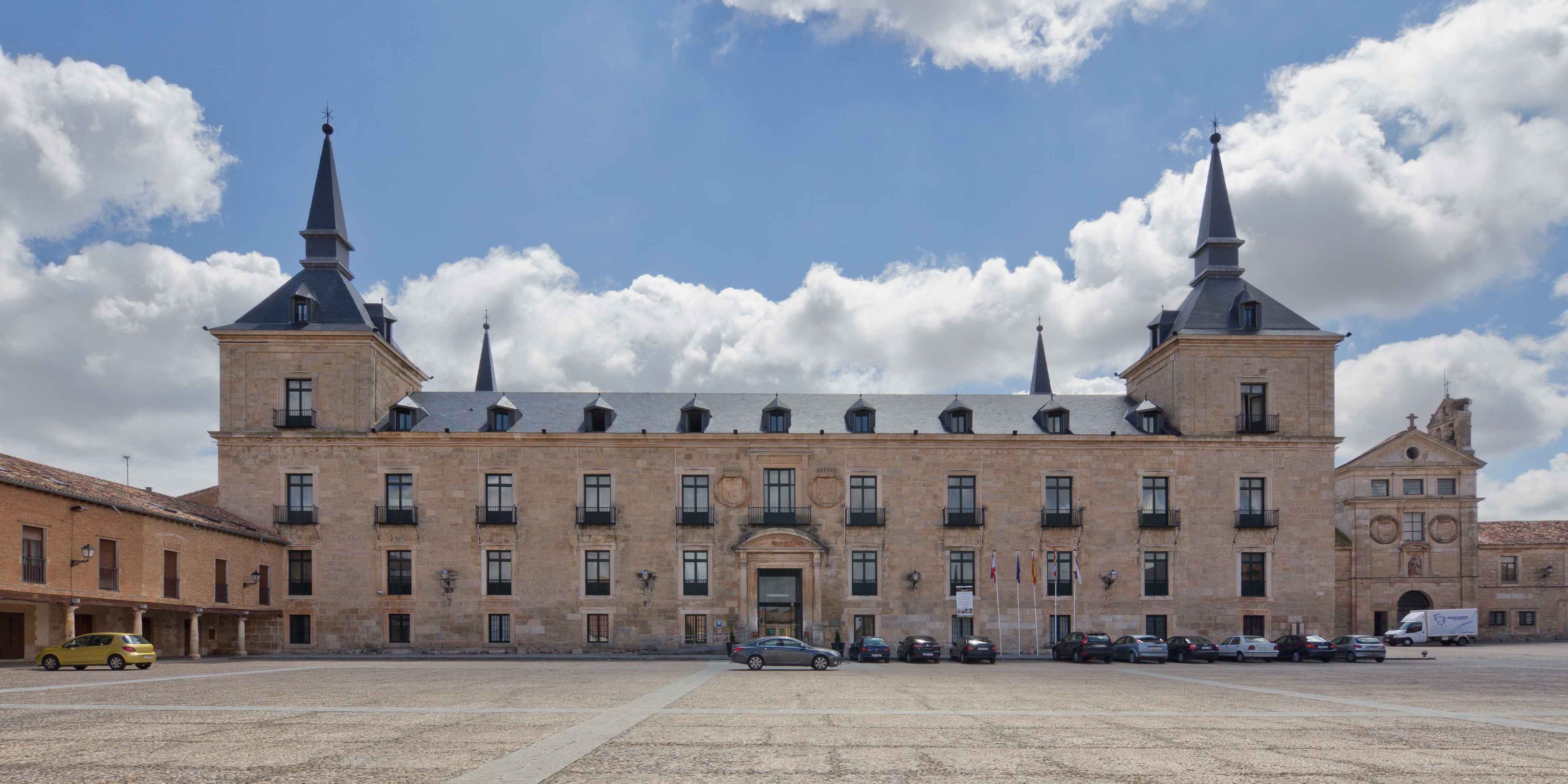 Ducal Palace of Lerma, Burgos, Spain.